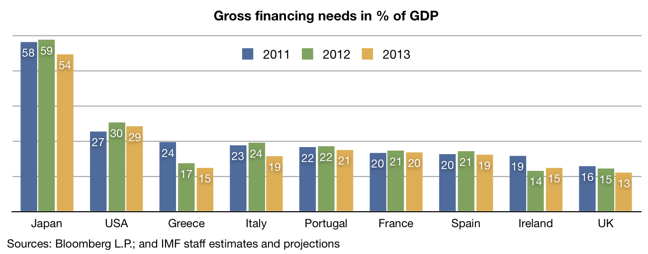 Gross financing needs in % of GDP Sources: Bloomberg L.P.; and IMF staff estimates and projections. See: September 2011 Fiscal Monitor: Direct link to Excel document: Notes: Greece's maturing debt assumes 90 percent participation in the debt exchange. Ireland’s maturing debt includes €3.08 billion each year related to the redemption of promissory notes issued in 2010 to support the financial sector.